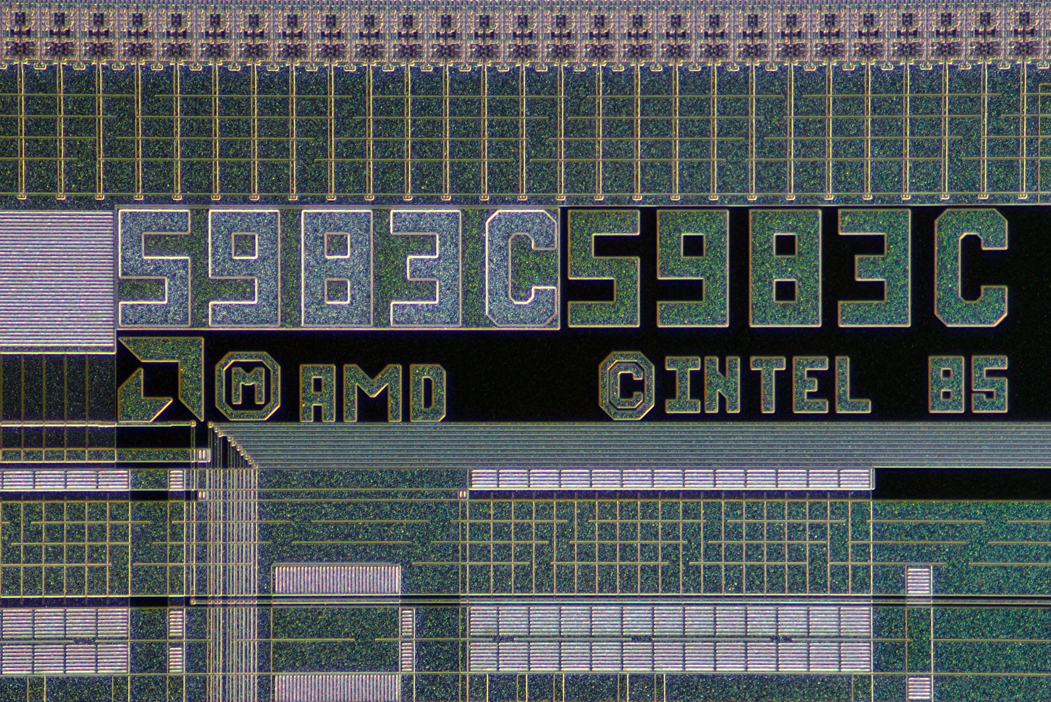 Wafer of an Amd 386 processor with intel logo